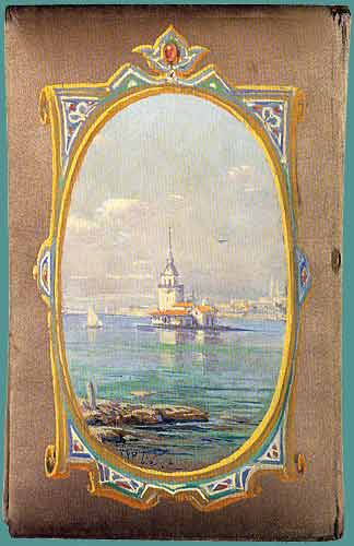 Kızkulesi (Maiden's Tower), Hoca Ali Rıza, oil on satin, 18 x 11 cm